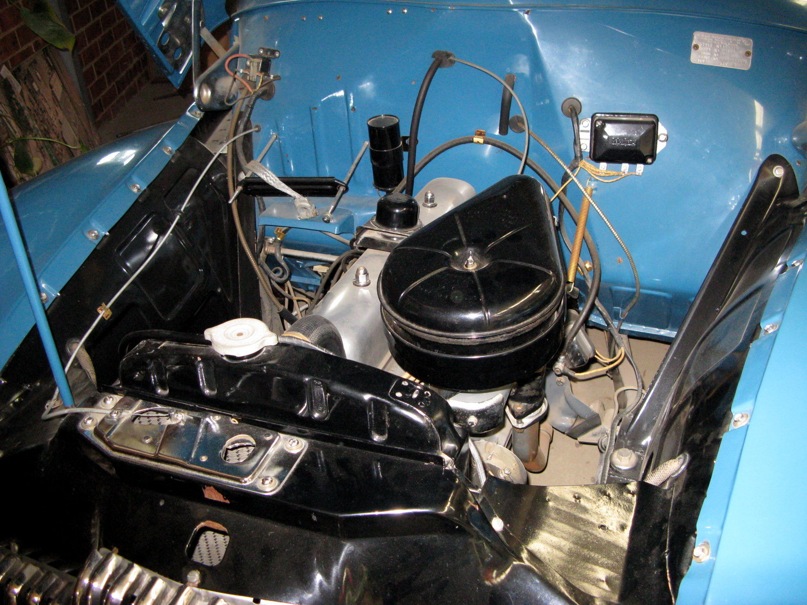 1948 Holden 48-215 Engine